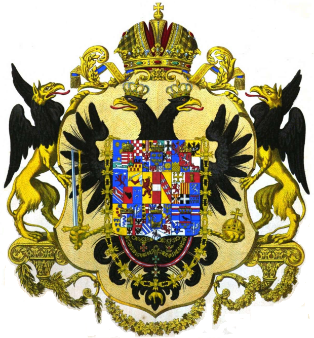 Austro-Hungarian Empire